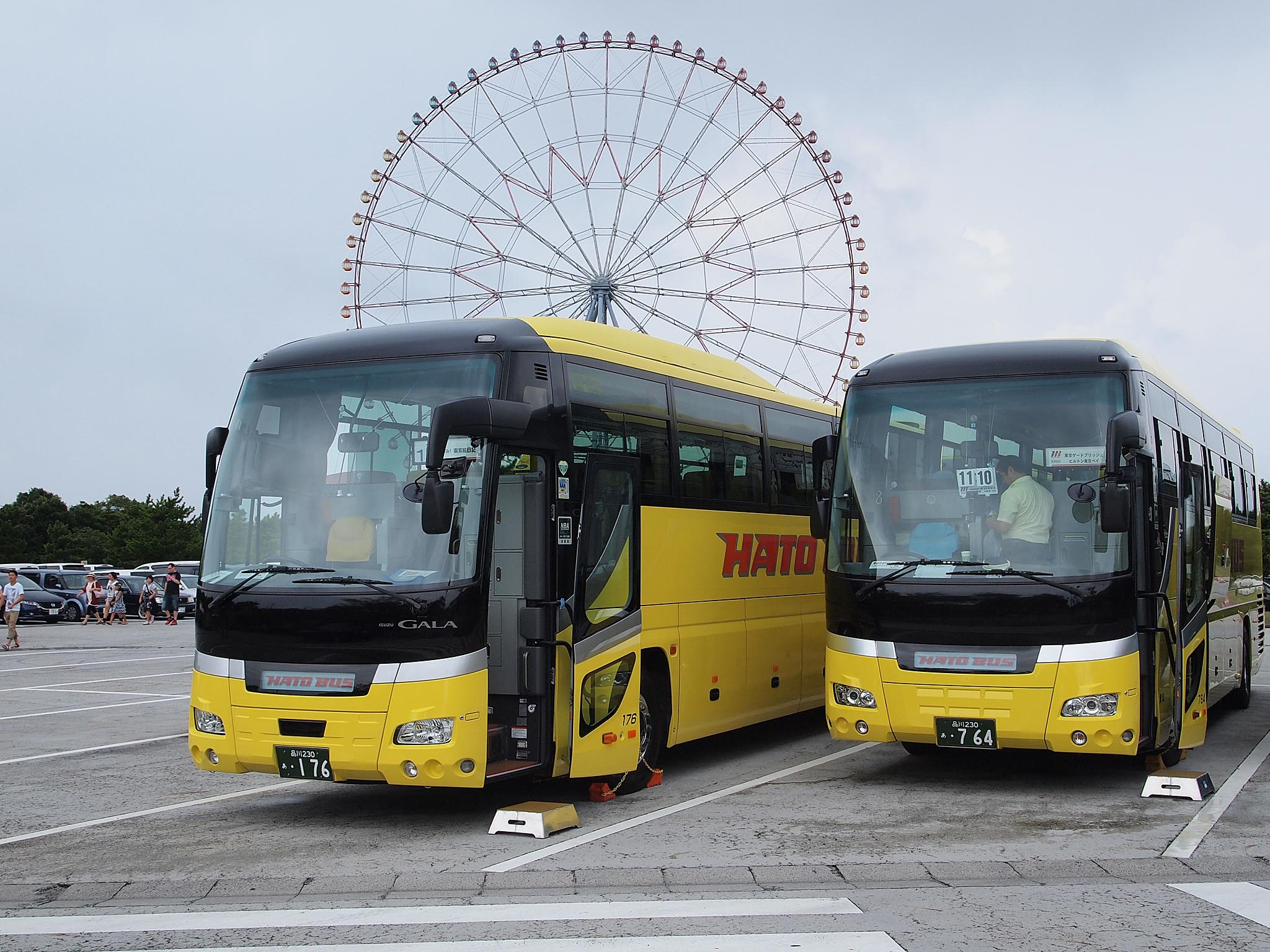 Difference of Isuzu Gala (2nd Gen, SHD: Super High Decker). Left: Version 2011 (LKG-RU1ESBJ, TKS230A-176) Pre-crash radar equipped Right: Version 2007 (PKG-RU1ESAJ, TKS230A-764) Operator: Hato Bus Place: Kasai Rinkai Park, Edogawa Ward, Tokyo Japan